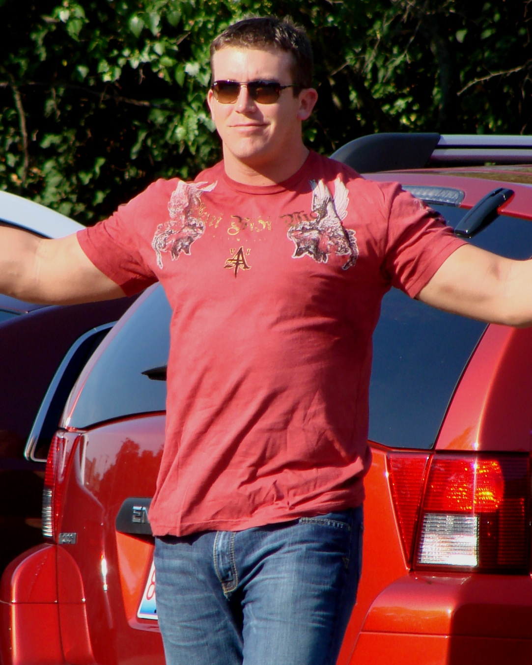 Ted DiBiase (Jr.) at Valparaiso University. Valparaiso, Indiana. Taken by myself. Rotated and cropped.